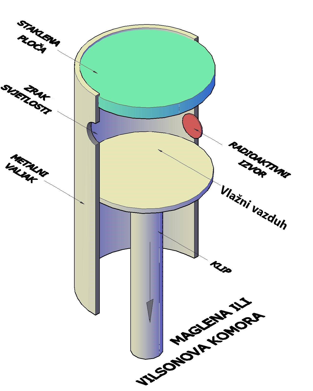 Schema of a cloud chamber, with labels in Serbian language